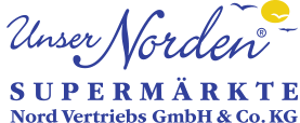 This is the official Logo of Supermärkte Nord since December 29th 2016.